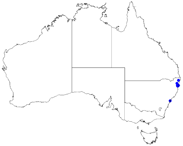 Boronia umbellata downloaded from Australasian Virtual Herbarium 10 April 2019 using This download included all the environmental overlay fields and ALA's data checking fields including "cultivated / escapee", "outside expert range for species", "latitude is negated", "coordinates are transposed", "taxon misidentified", "habitat incorrect for species", and "suspected outlier" (711 fields). Deleting occurrences for which any of the above were true, 46 specimens with coordinates were deleted.